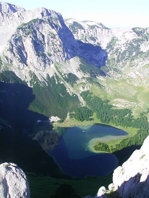 Trnovačko jezero (Trnovačko Lake) on the border of Montenegro and Bosnia and Herzegovina